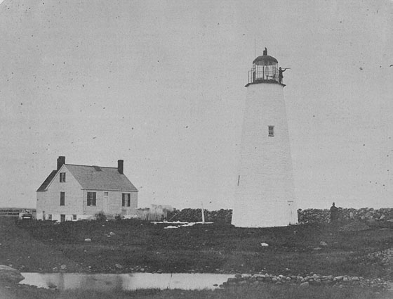 An old photograph of the Clark's Point Light.